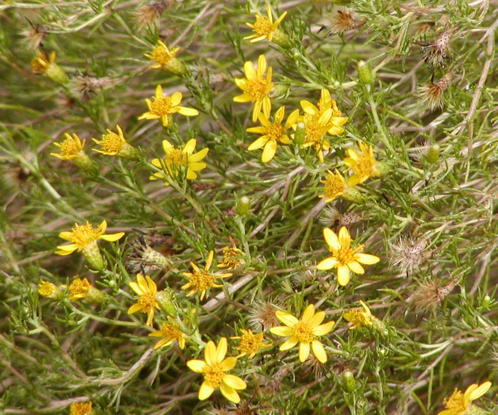 Photo of Chrysactinia mexicana (damianita) at the Desert Demonstration Garden in Las Vegas